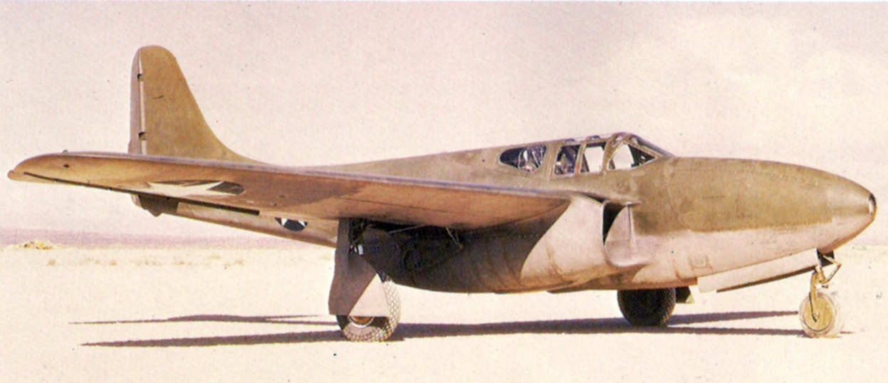 A U.S. Army Air Forces Bell XP-59A Airacomet (s/n 42-108784) at Muroc Dry Lake, California (USA). The XP-59A made its first flight on 2 October 1942.